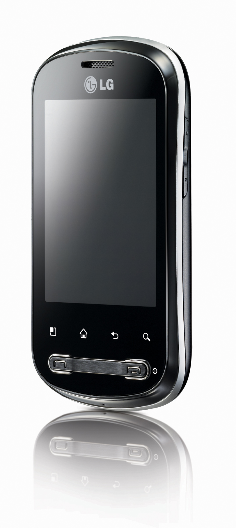 LG Optimus P350-1